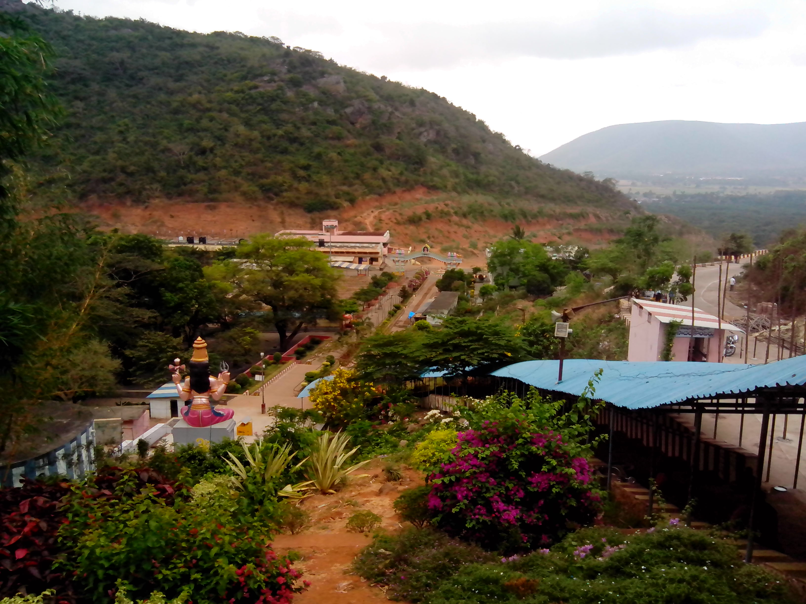 View from Talupulamma Temple, Lova, East Godavari